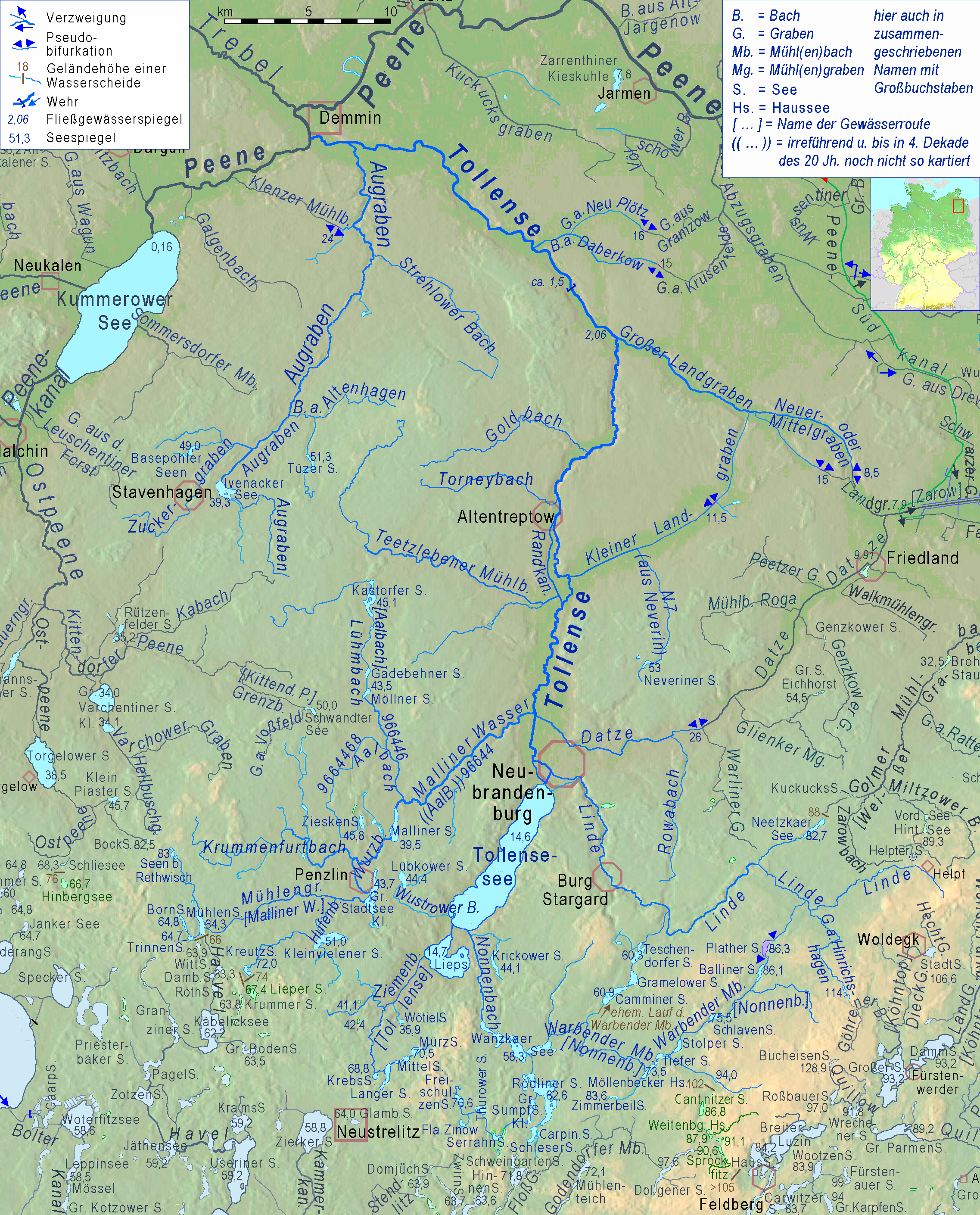 Cutout of the map of the basins of the rivers Peene, Zarow, Recknitz and Ryck; with relief background. name differring from those written in topographic maps haved been collected from water specialists of the maintaining institutions. This map may be incomplete, and may contain errors. Don't rely solely on it for navigation.